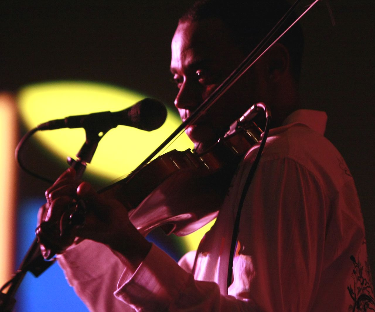 Cedric Watson plays fiddle with Bijou Creole at the Savannah Music Festival, March 21, 2009.